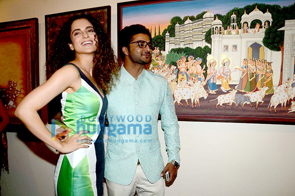 Kangna Ranaut graces Suvigya Sharma's exhibition